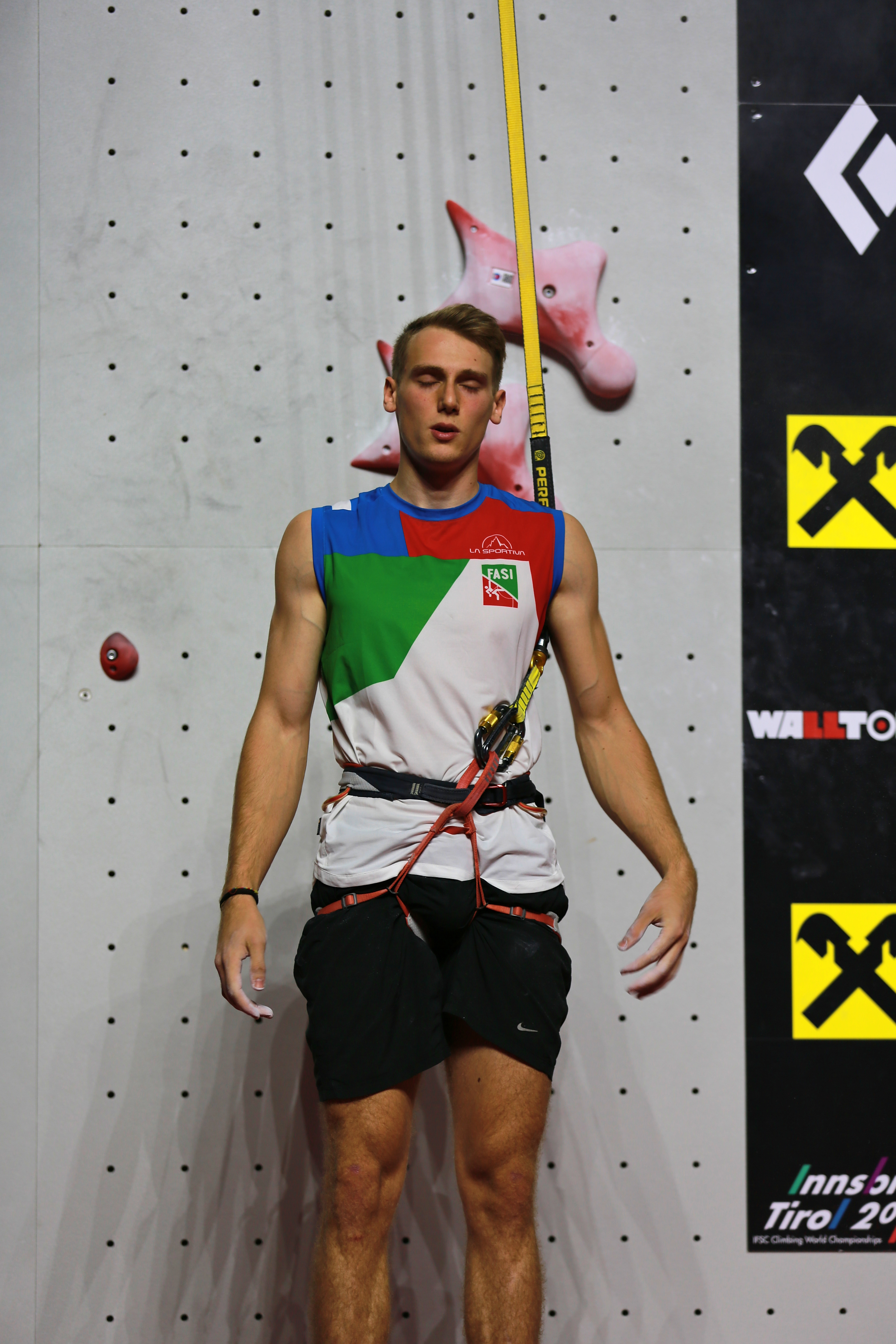 Climbing World Championships 2018 Speed Eighth-finals